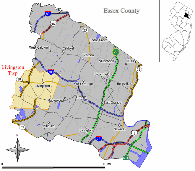 Source: Jim Irwin Original work by Jim Irwin, December 2005.